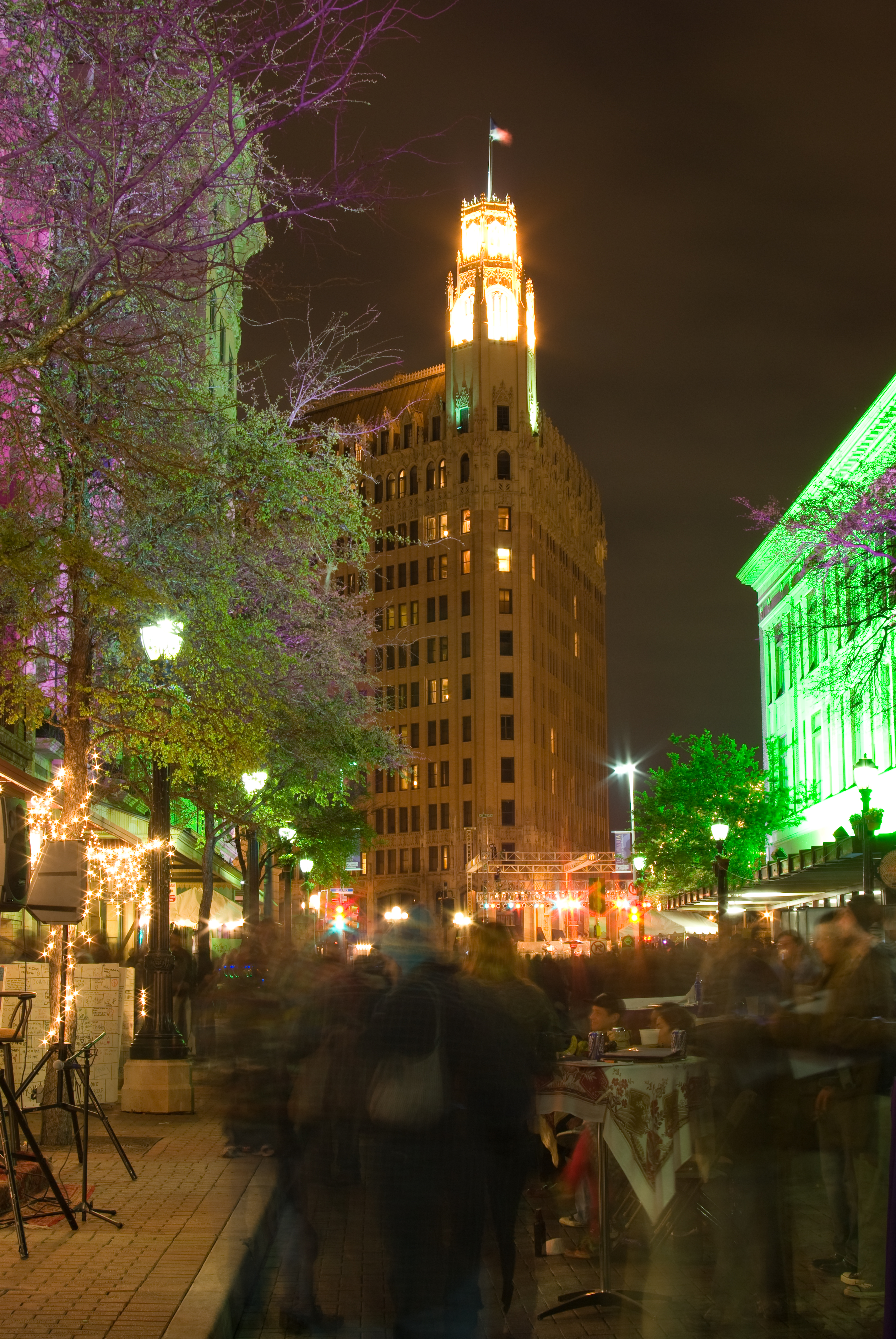 Houston Street at Luminaria. The Emily Morgan Hotel is in the background.